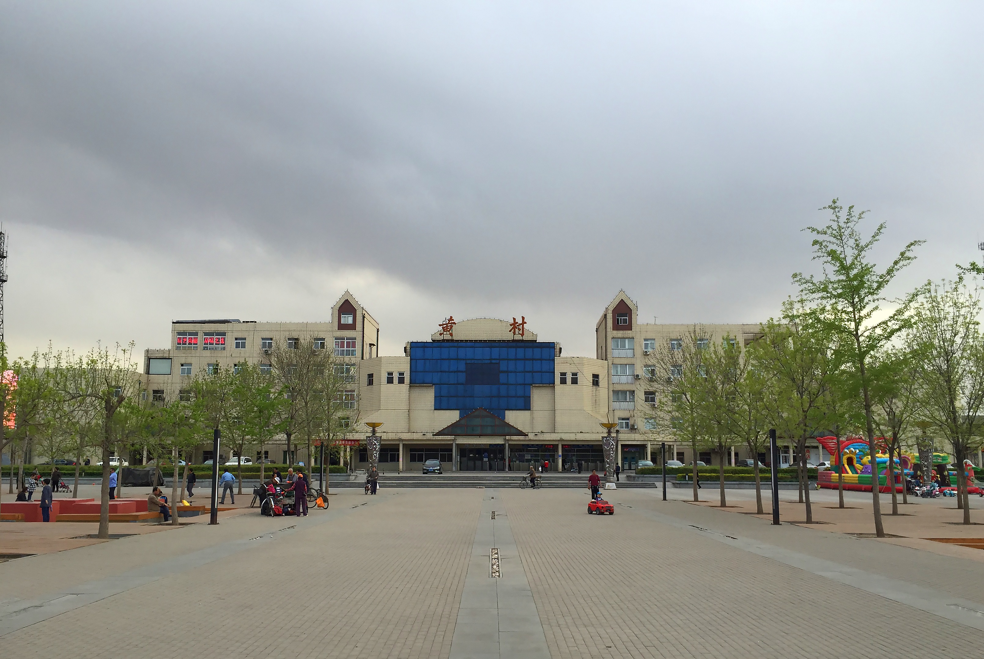 Another spring in Huangcun.